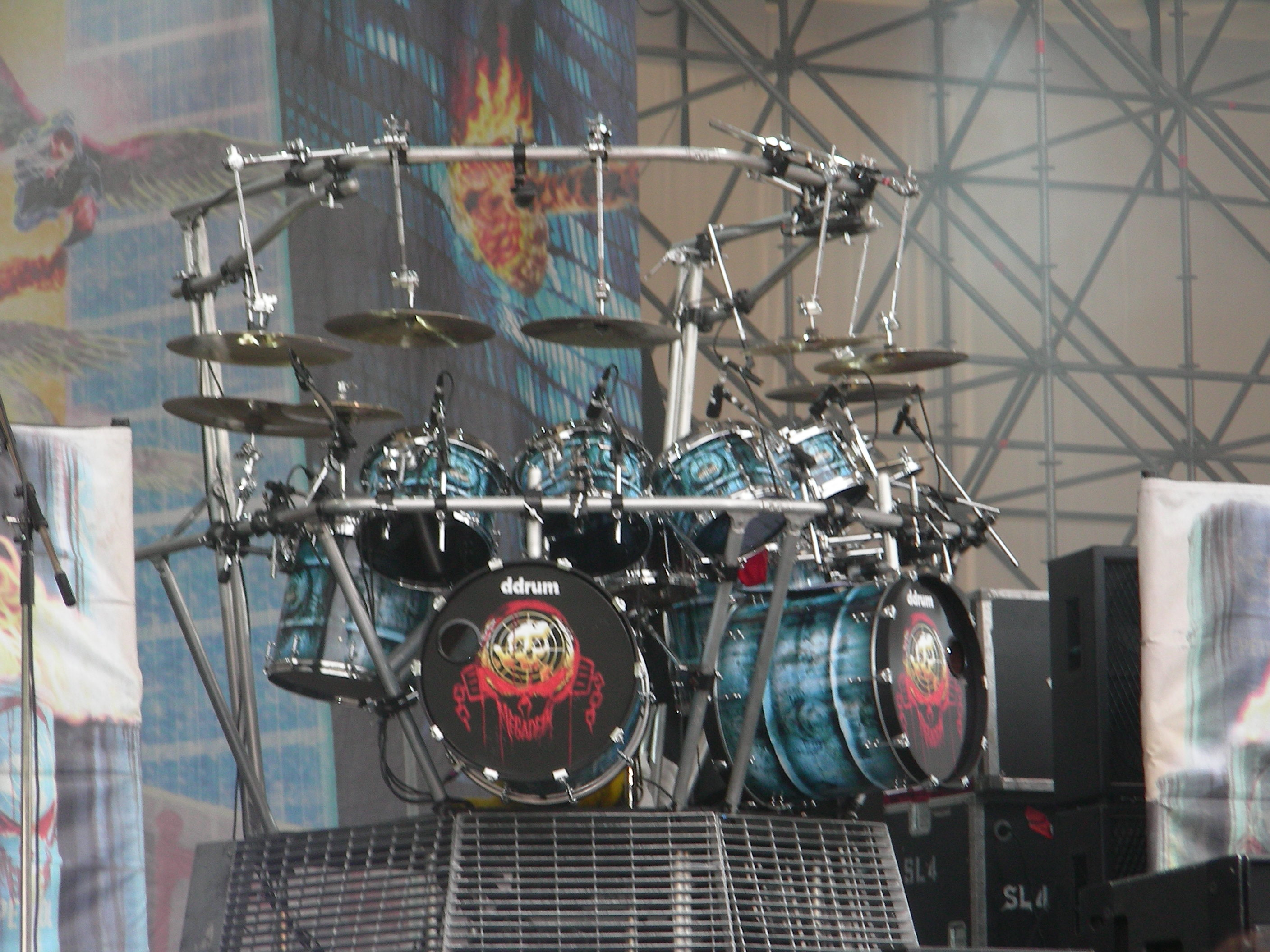 I Megadeth al Gods of Metal 2007